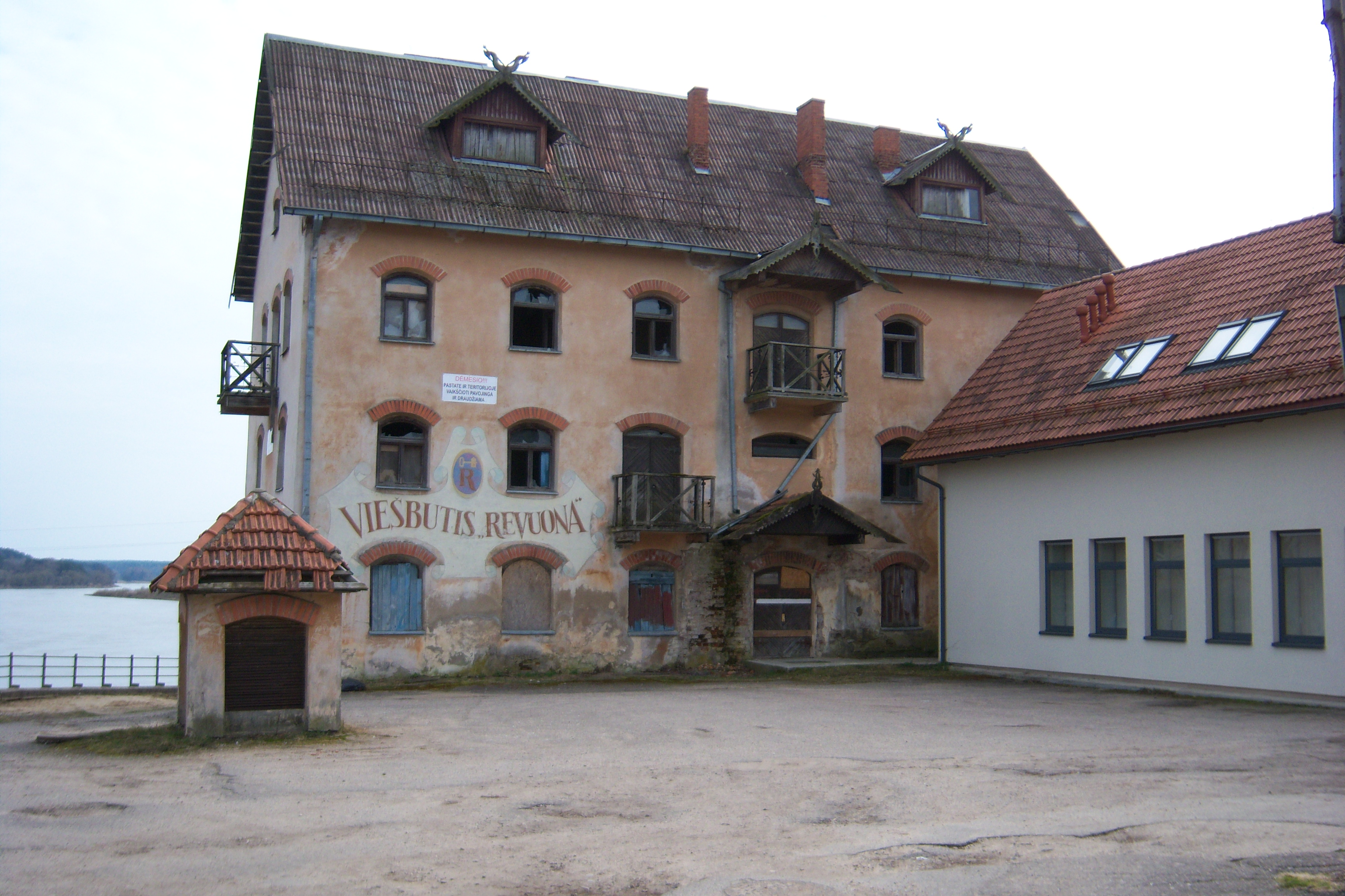 Former manor in Prienai, Lithuania